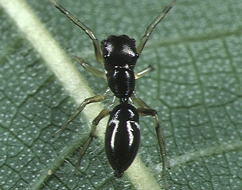 female Myrmarachne japonica from Okinawa.